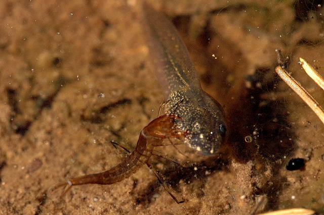 Picture taken in Commanster, Belgian High Ardennes . Species: Dytiscus marginalis larva with prey